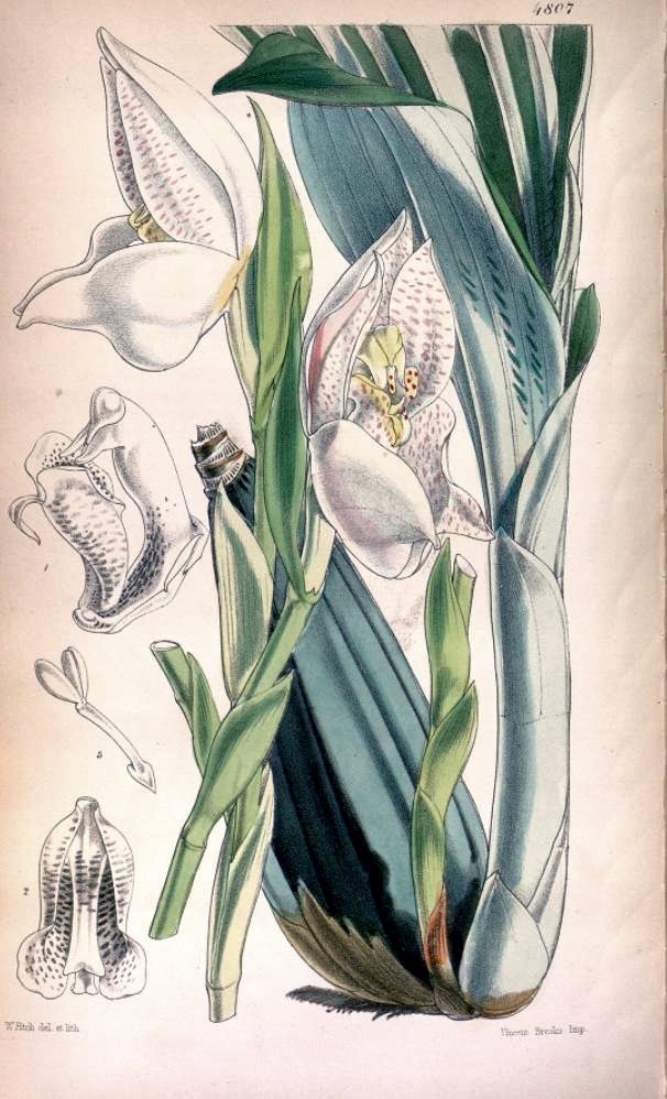 Illustration of Anguloa uniflora